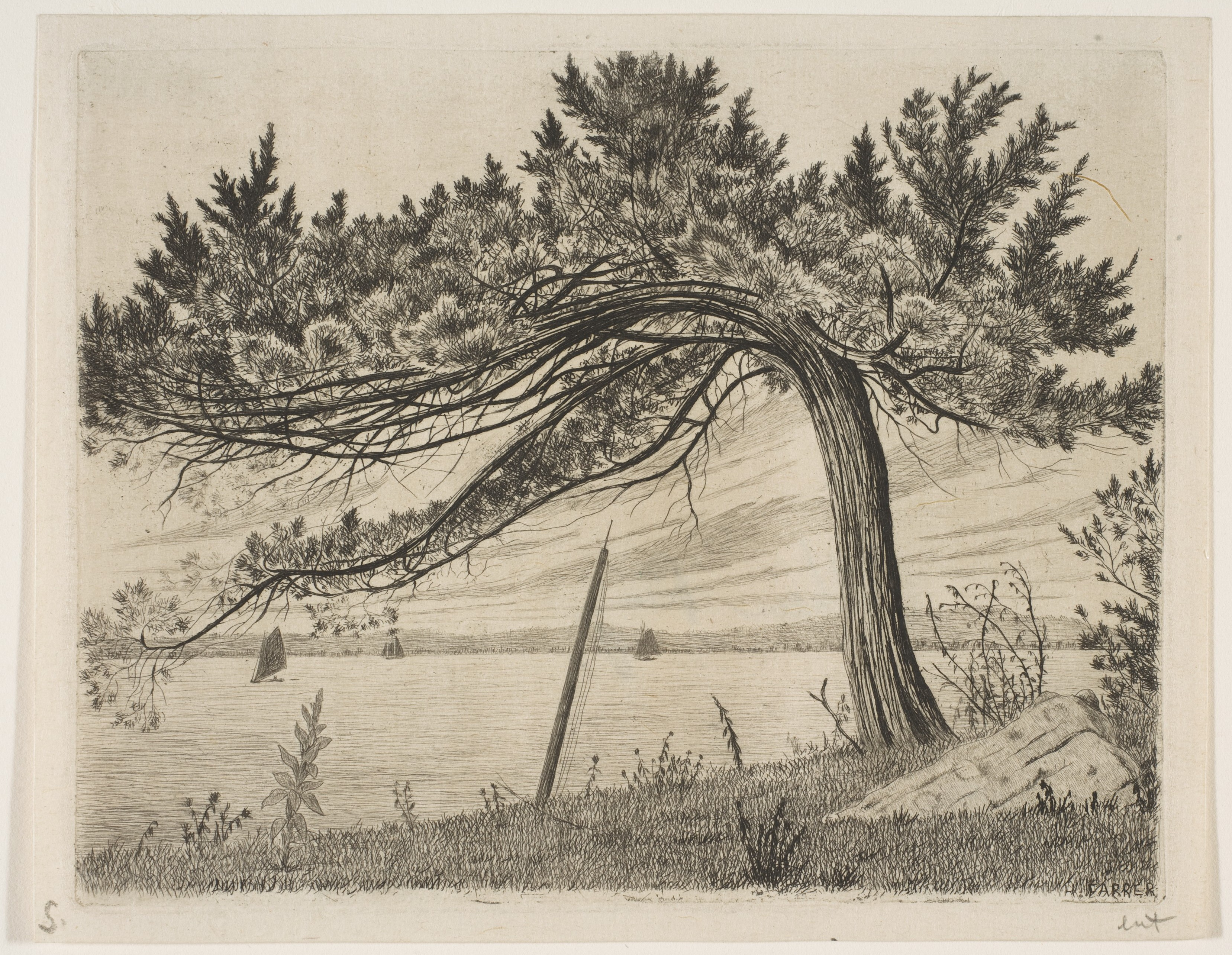 Print; Prints